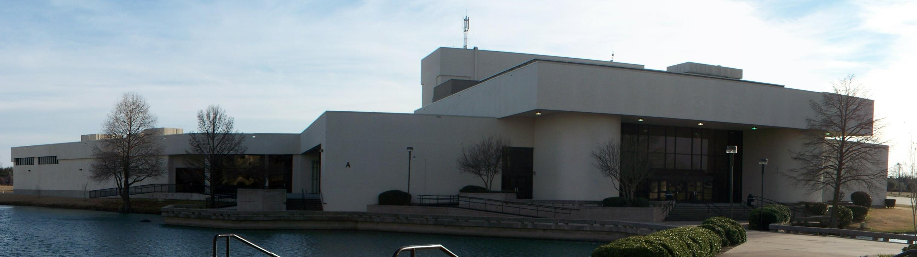 Panoramic picture of the Plano East Fine Arts Building (A) in Plano East Fine Arts Building